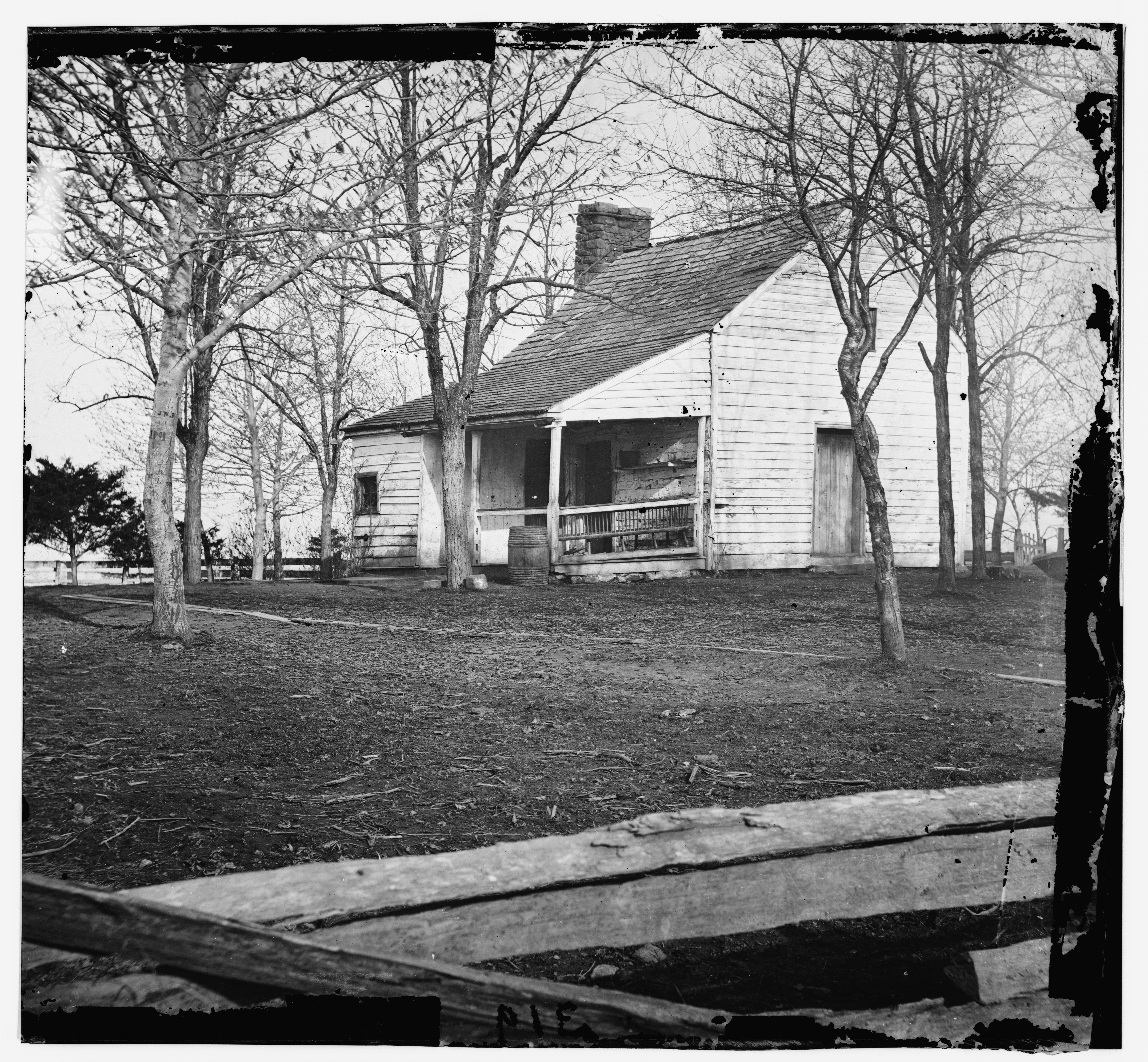 Title: Bull Run, Virginia. Robinson's house Physical description: 1 negative (2 plates)